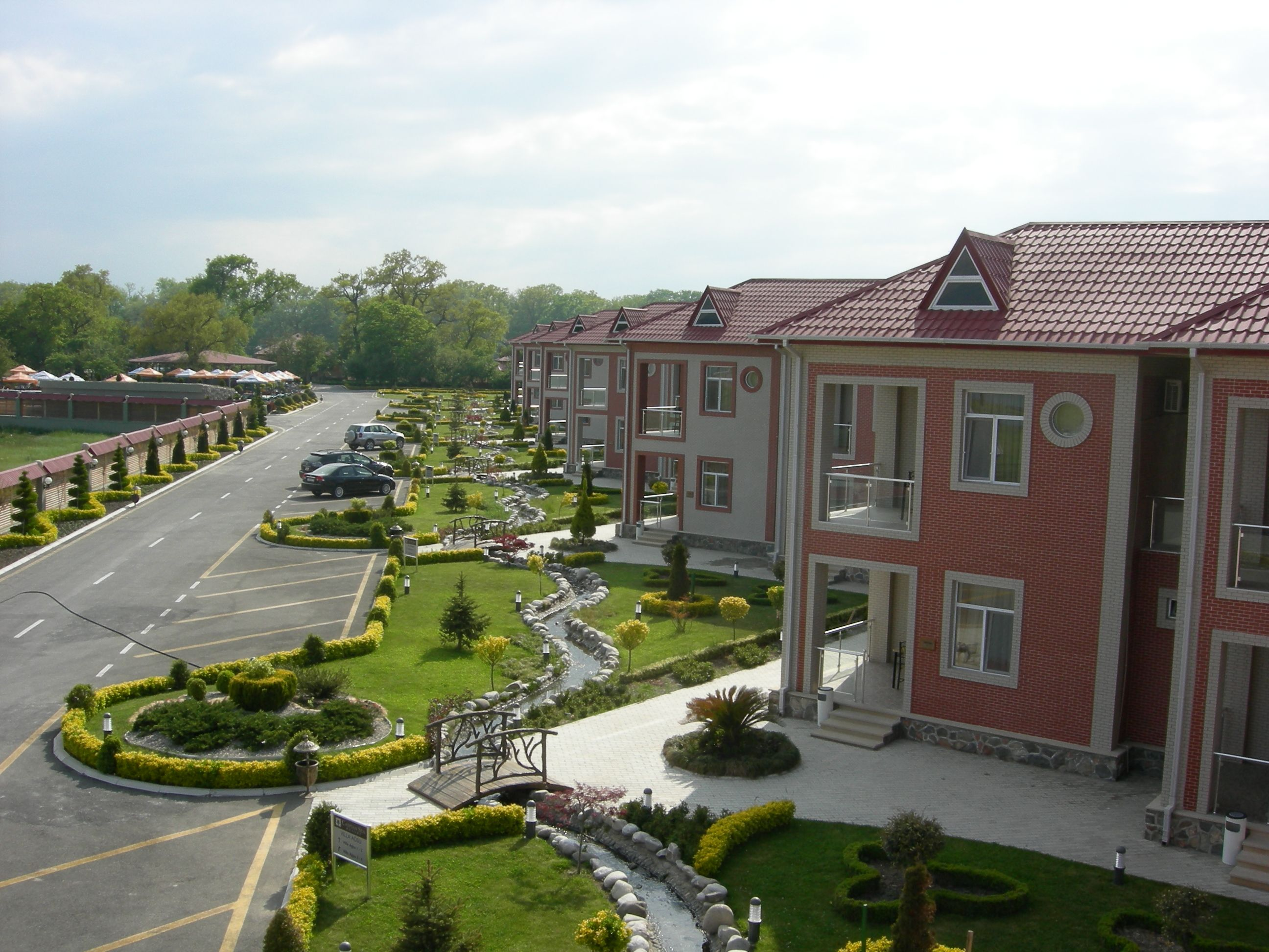 "Caspian Sea Resort" at Nabran, Khachmaz Rayon, Azerbaijan